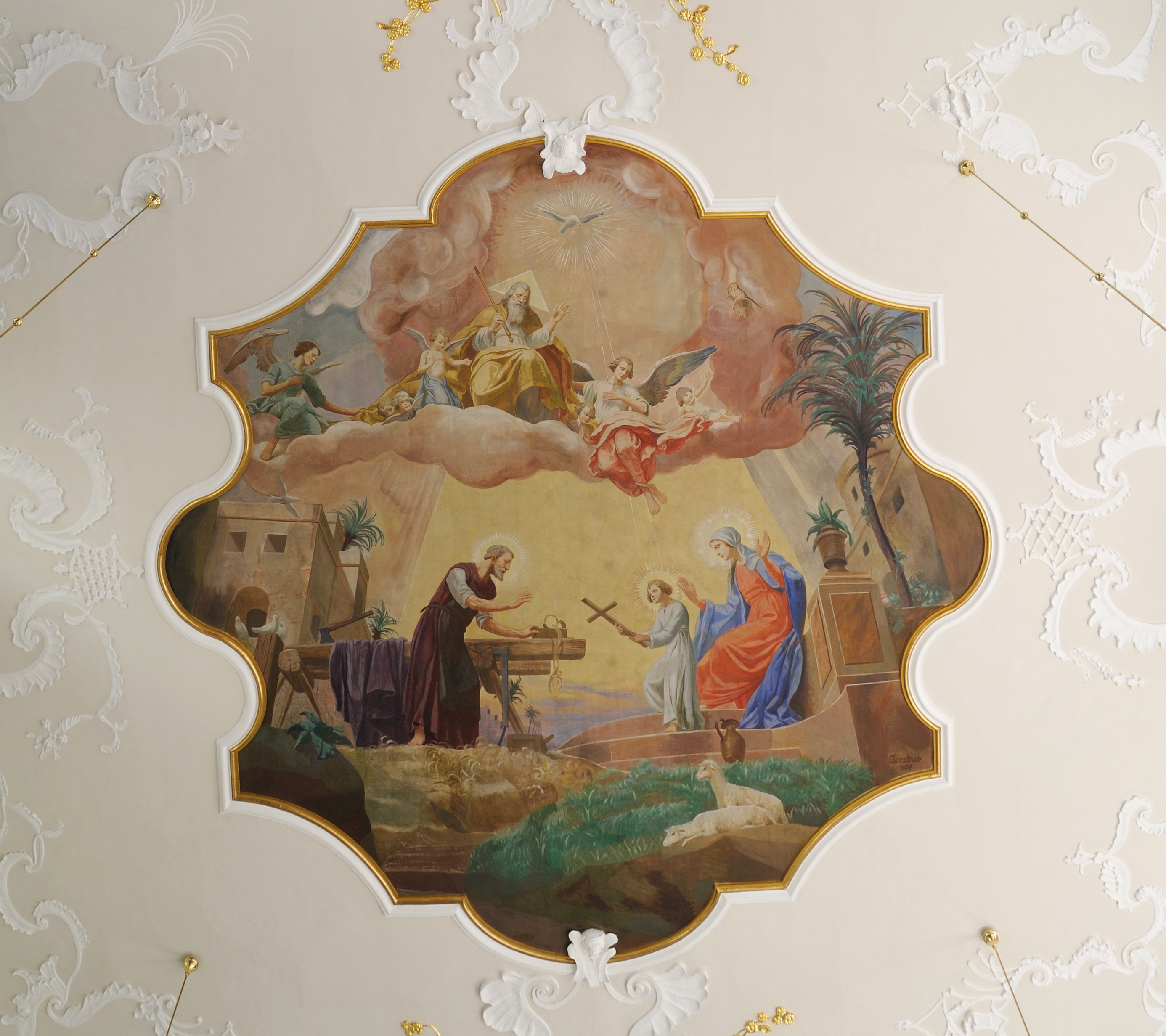 Schliengen: Saint Leodegar Church, fresco of the Holy Family